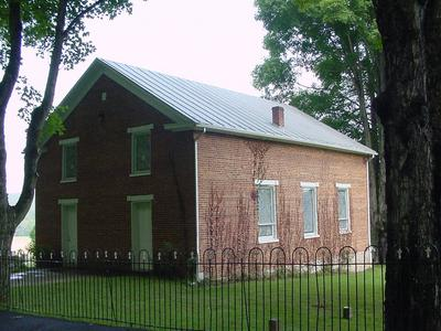 The Old Hebron Lutheran Church along WV 259 between Capon Lake and Intermont in the U.S. state of West Virginia.